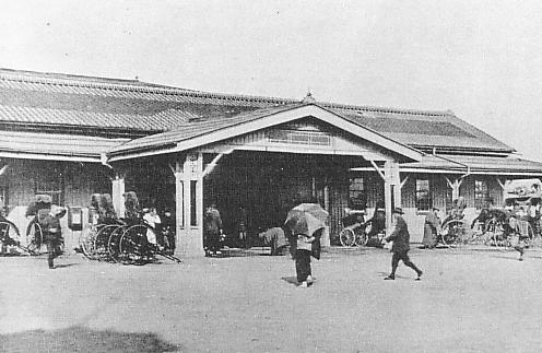 Nagoya Station in the Meiji era